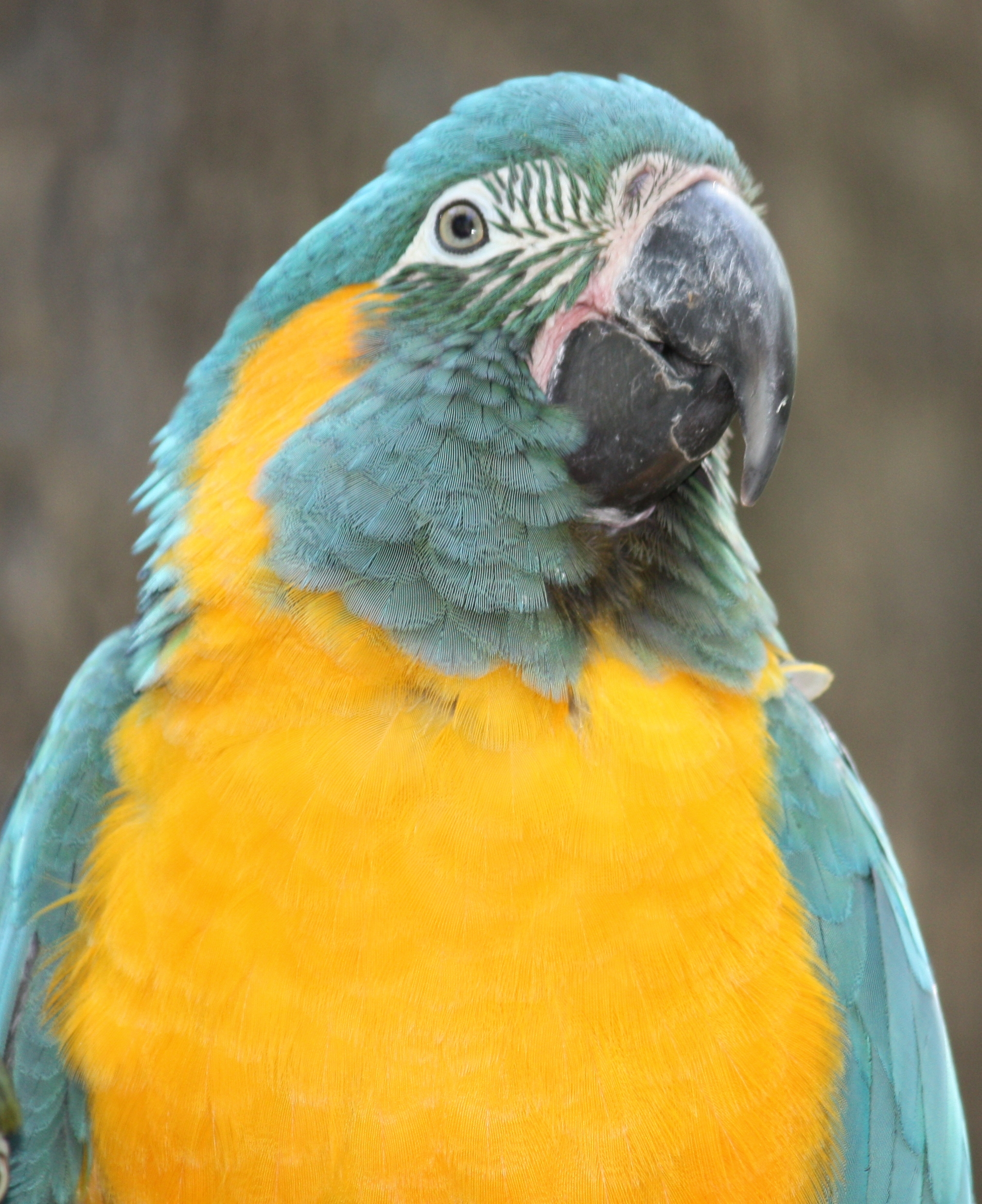 Blue-throated Macaw Ara glaucogularis at Cincinnati Zoo